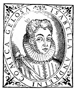 Isabella Andreini, in a print dated 1588, when the actress was 26 years old.